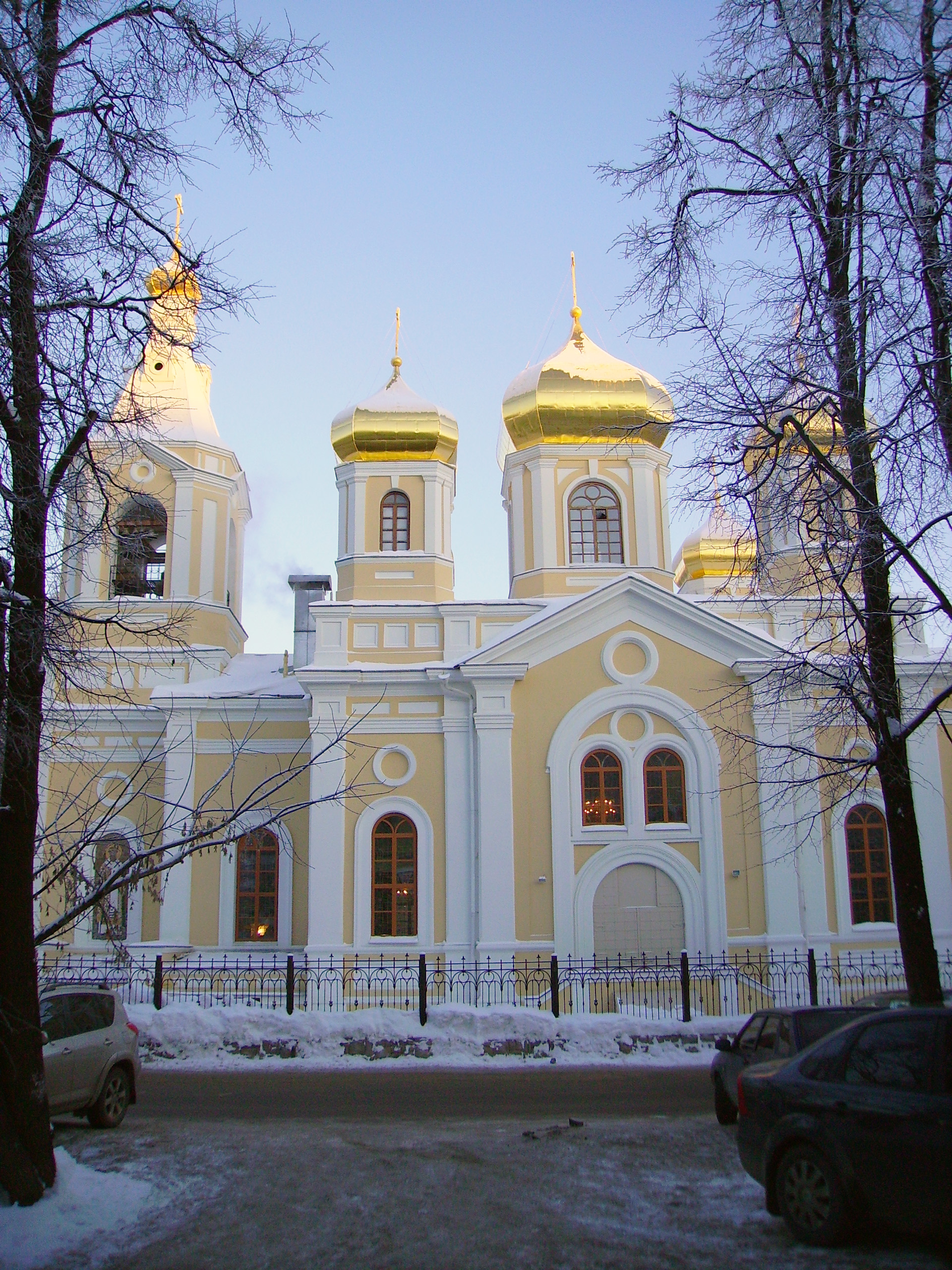 Nizhny Novgorod, Russia. Moscowian Saints Temple at Slavyanskaya Square